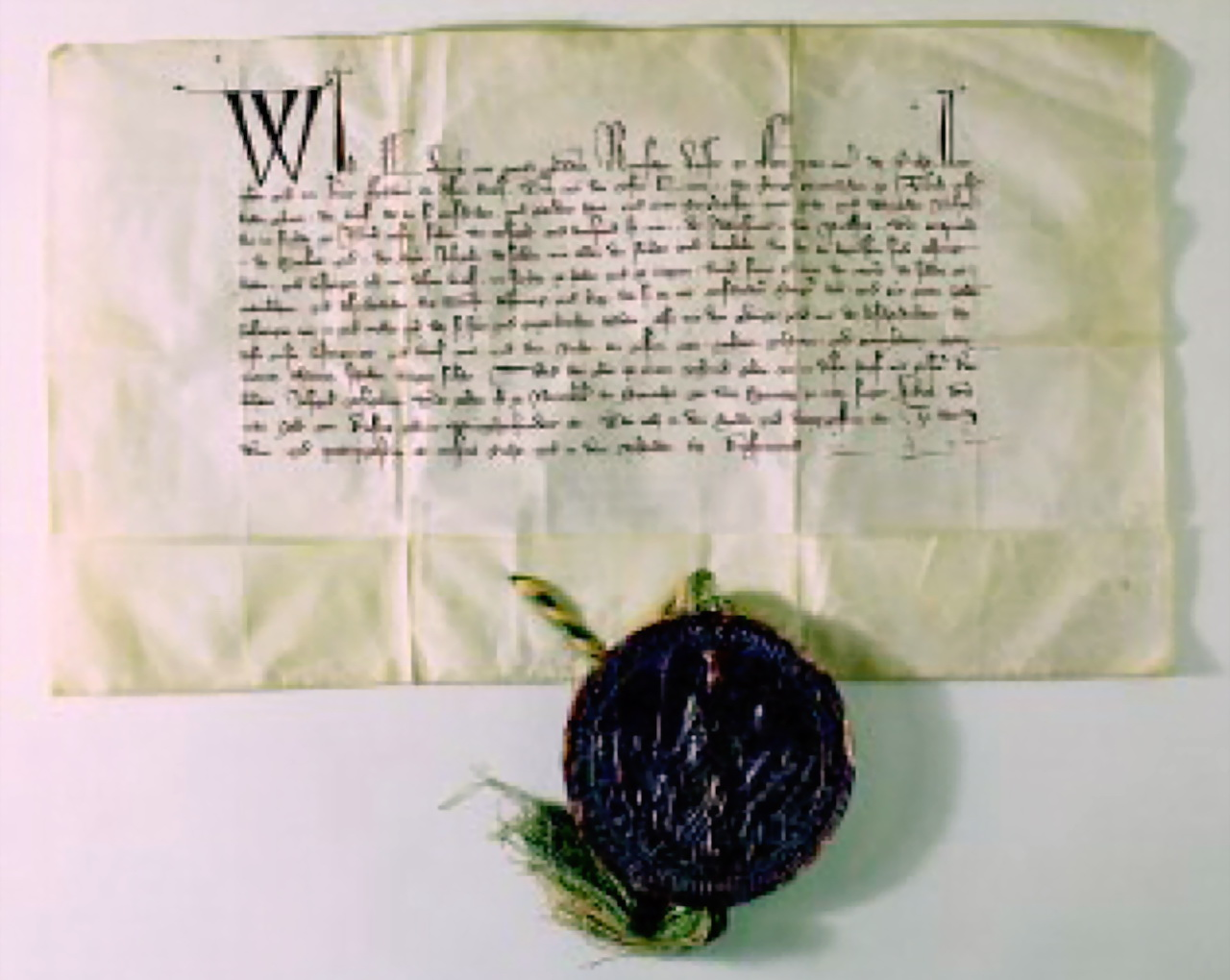 Zürich : '1. Geschworener Brief' (1336) confirmed by Louis IV, Holy Roman Emperor